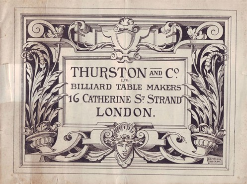 Advertising of John Thurston